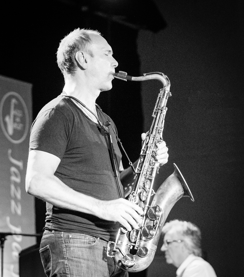 Bendik Hofseth at the stage at Thon Hotel Jølster. The concert was part of Jazz på Jølst and took place at Skei on 13. October 2017. Lineup: Bendik Hofseth (saxophone), Helge Iberg (piano), Mats Eilertsen (double bass), Audun Kleive (drums) and Bård Vegard Solhjell (introduction). Introduction by Bård Vegard Solhjell.